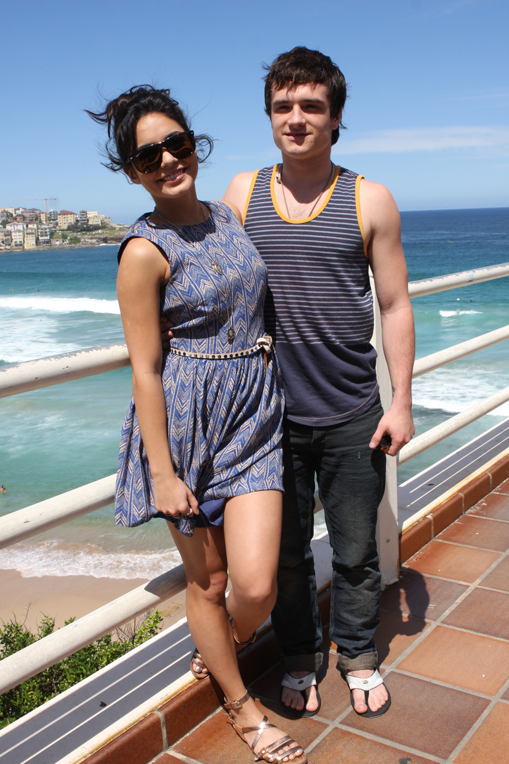 Vanessa Hudgens and Josh Hutcherson at Bondi Beach.